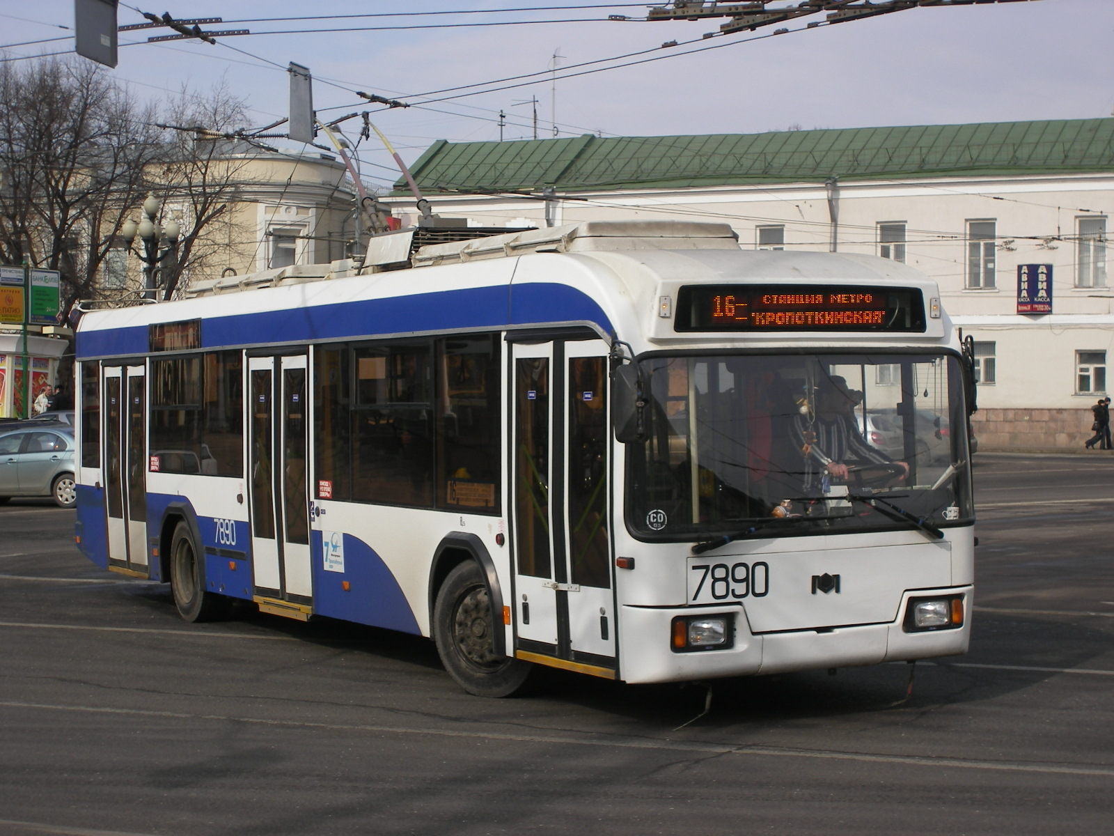 Trolleybus BKM-321 #7890. Route #16. Prechistenskie vorota square.